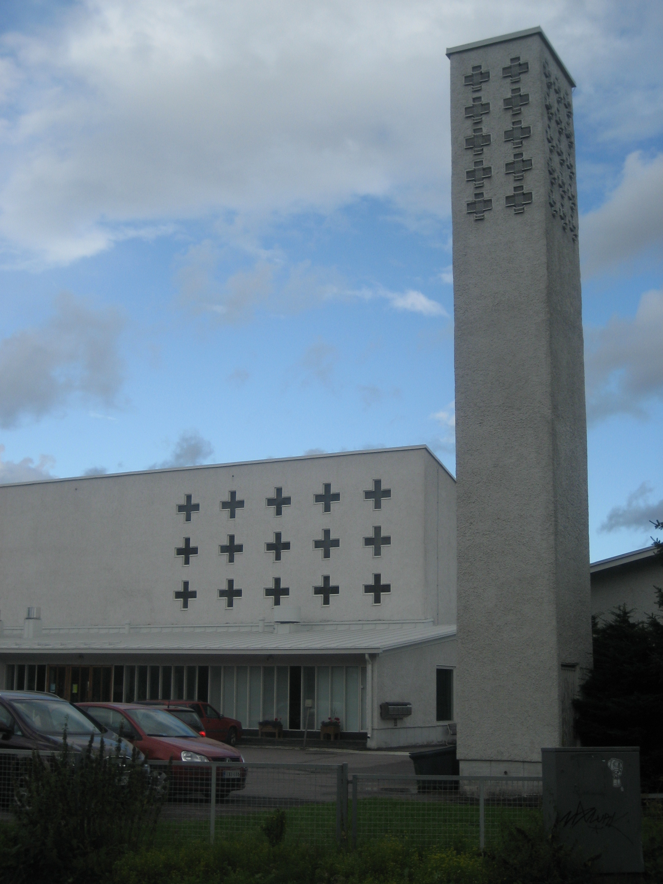 Tapanila Church, Helsinki, Finland. Built in 1956–1957. Architect: Pehr Björkvall.